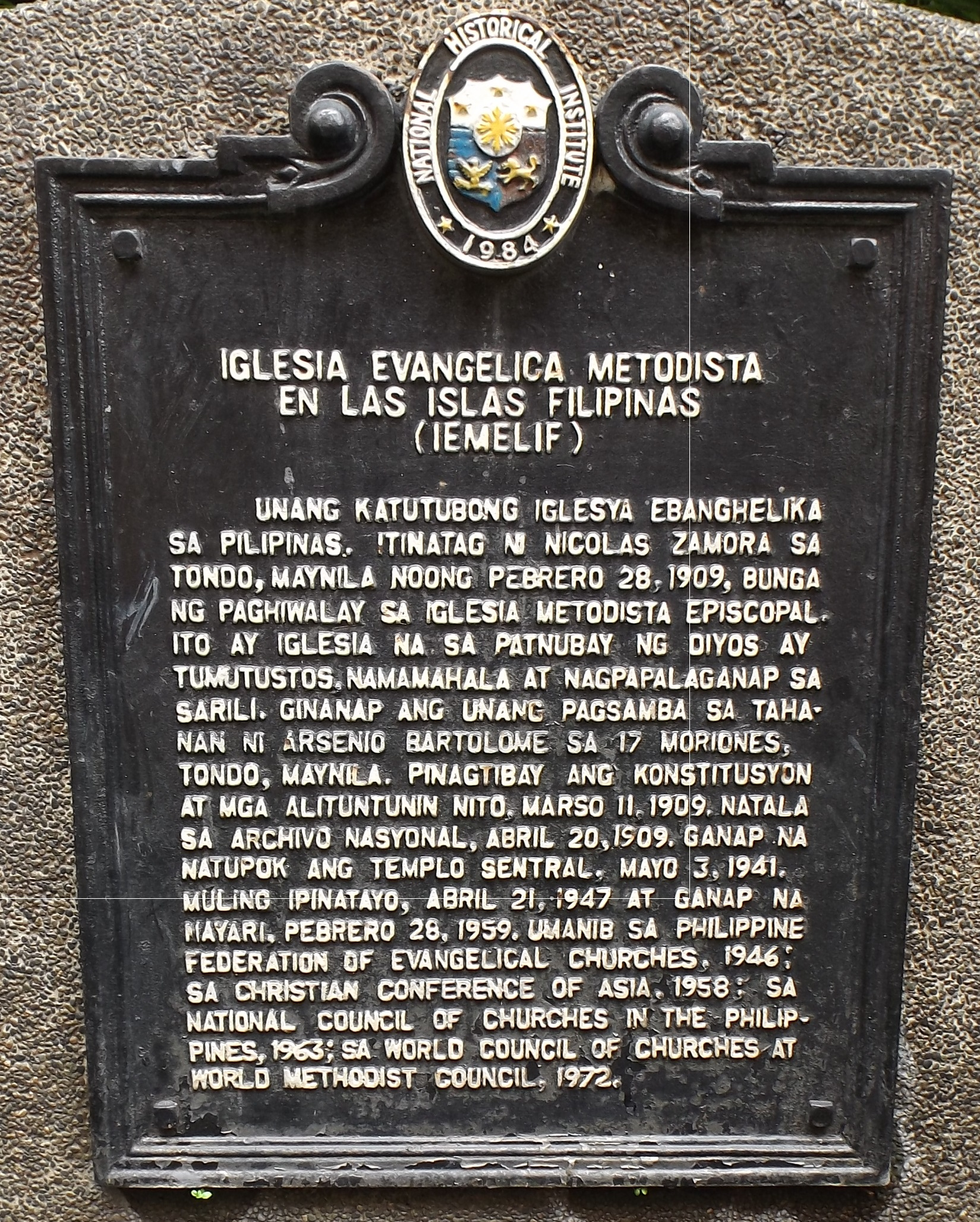 Historical Marker